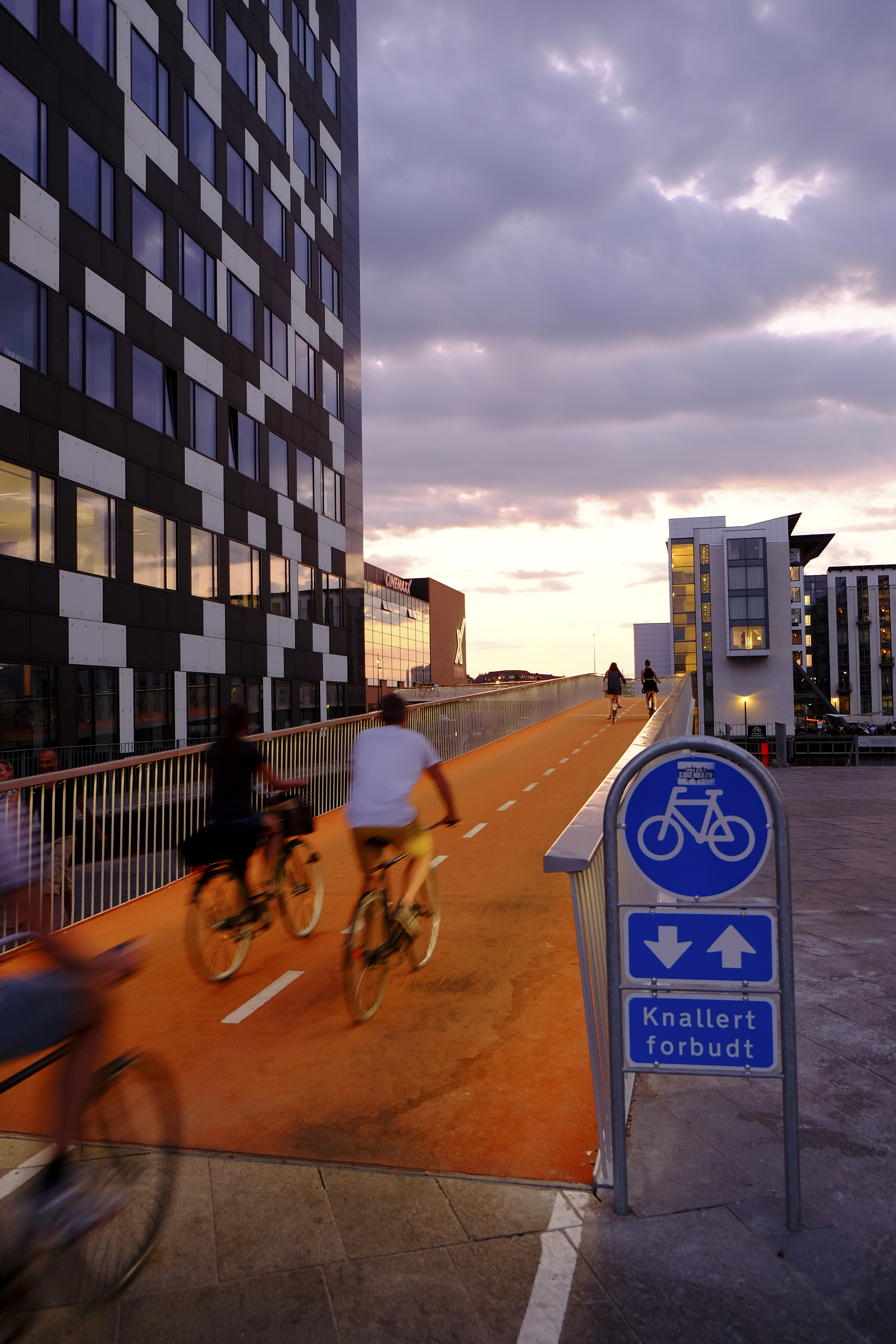 Cykelslangen, København, Denmark